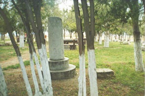 A cylinder marble with the words Veni Vidi Vİci.